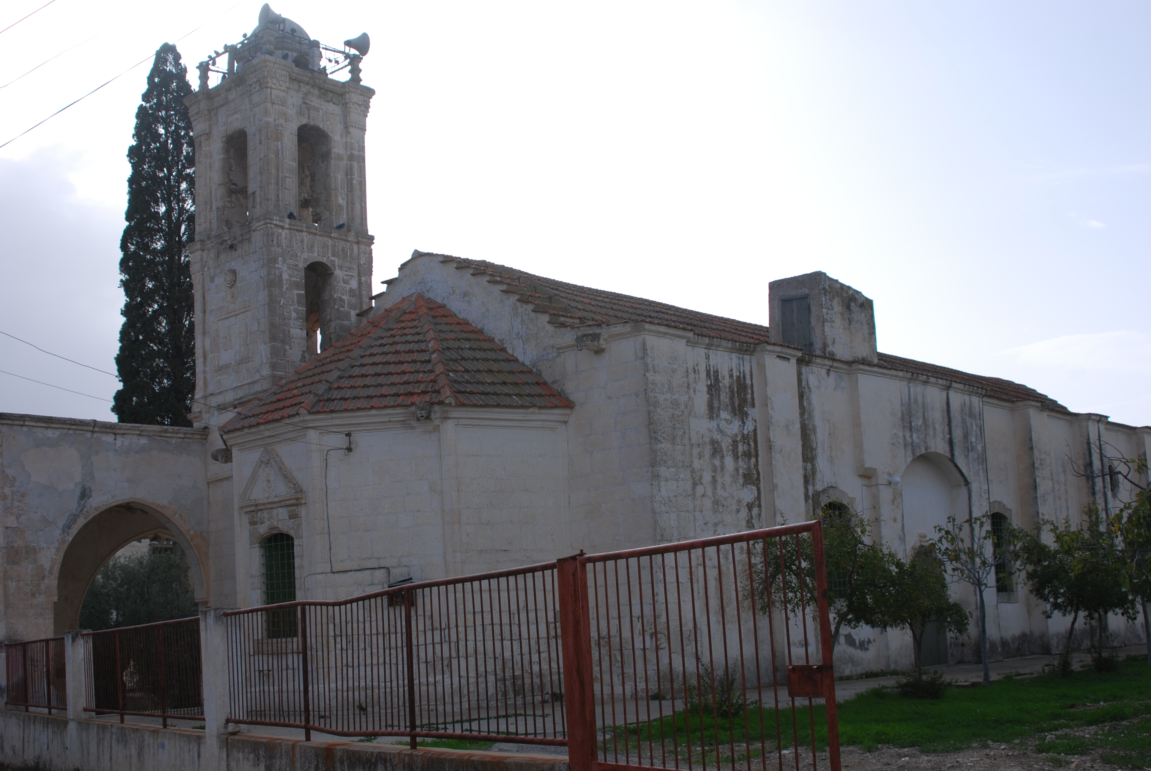 Church of Lefkoniko